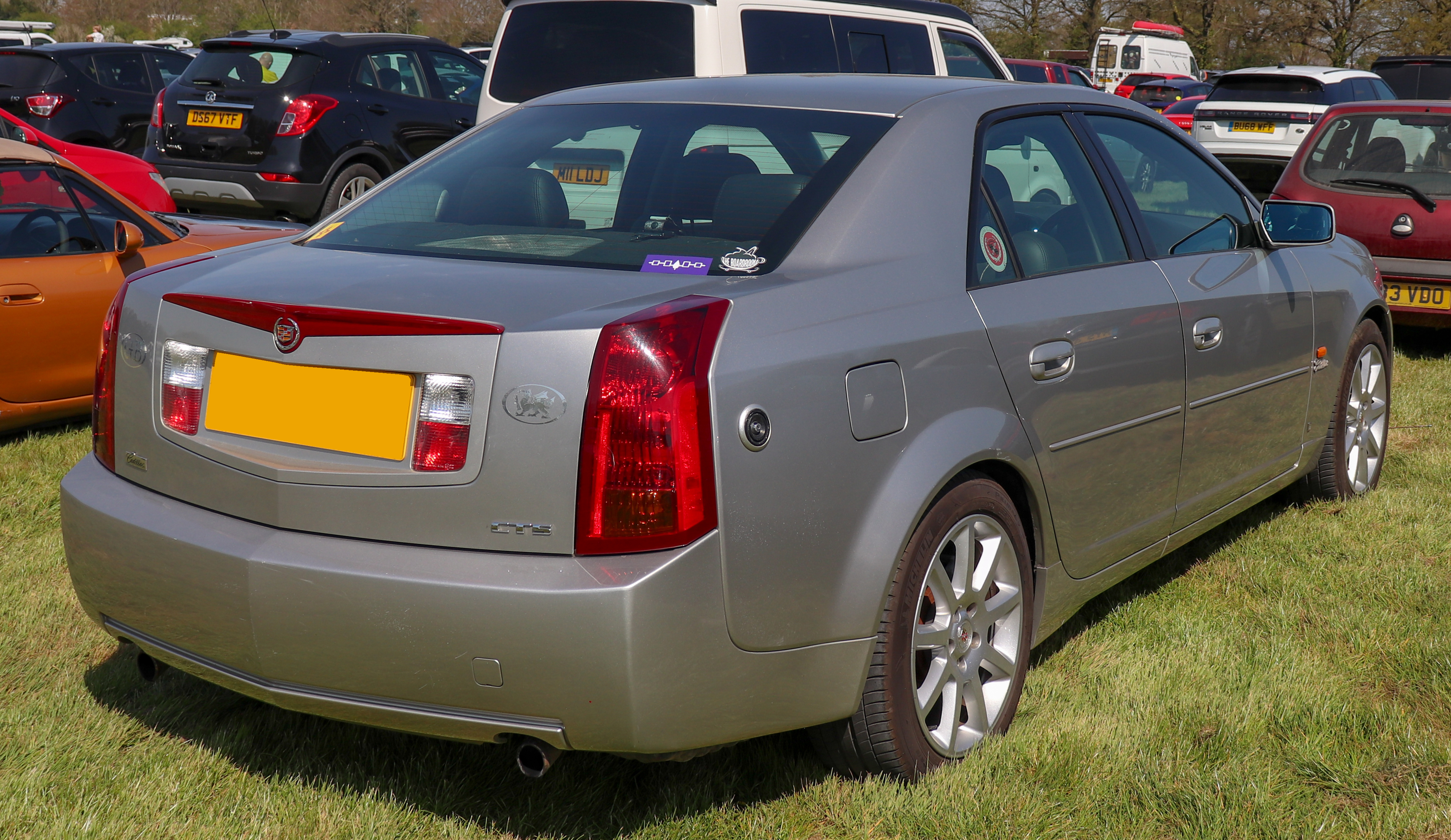 2006 Cadillac CTS Sport Luxury Automatic 3.6 Rear Taken at NAEC Stoneleigh, Stoneleigh, Coventry